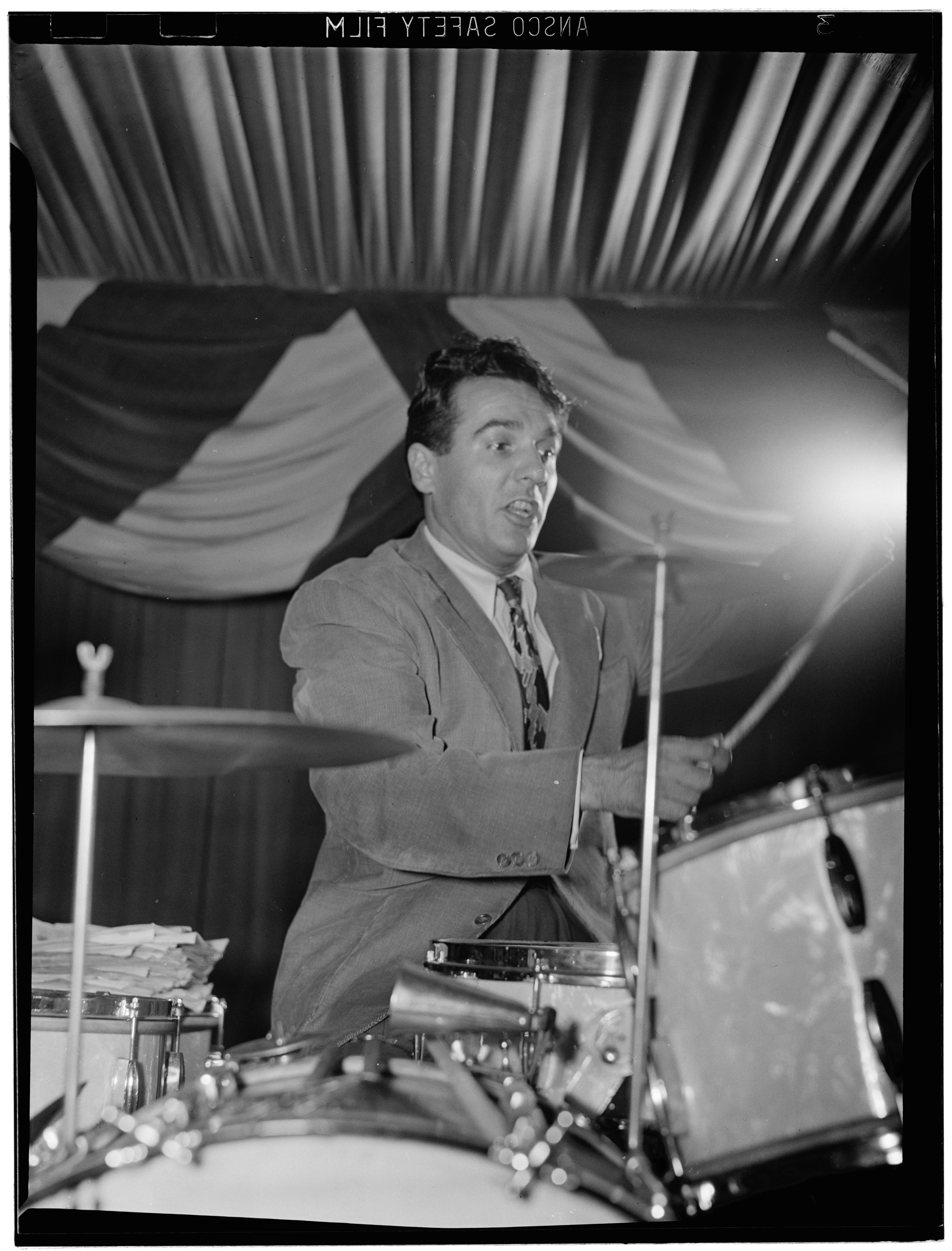 Gene Krupa, 400 Restaurant, New York, N.Y.